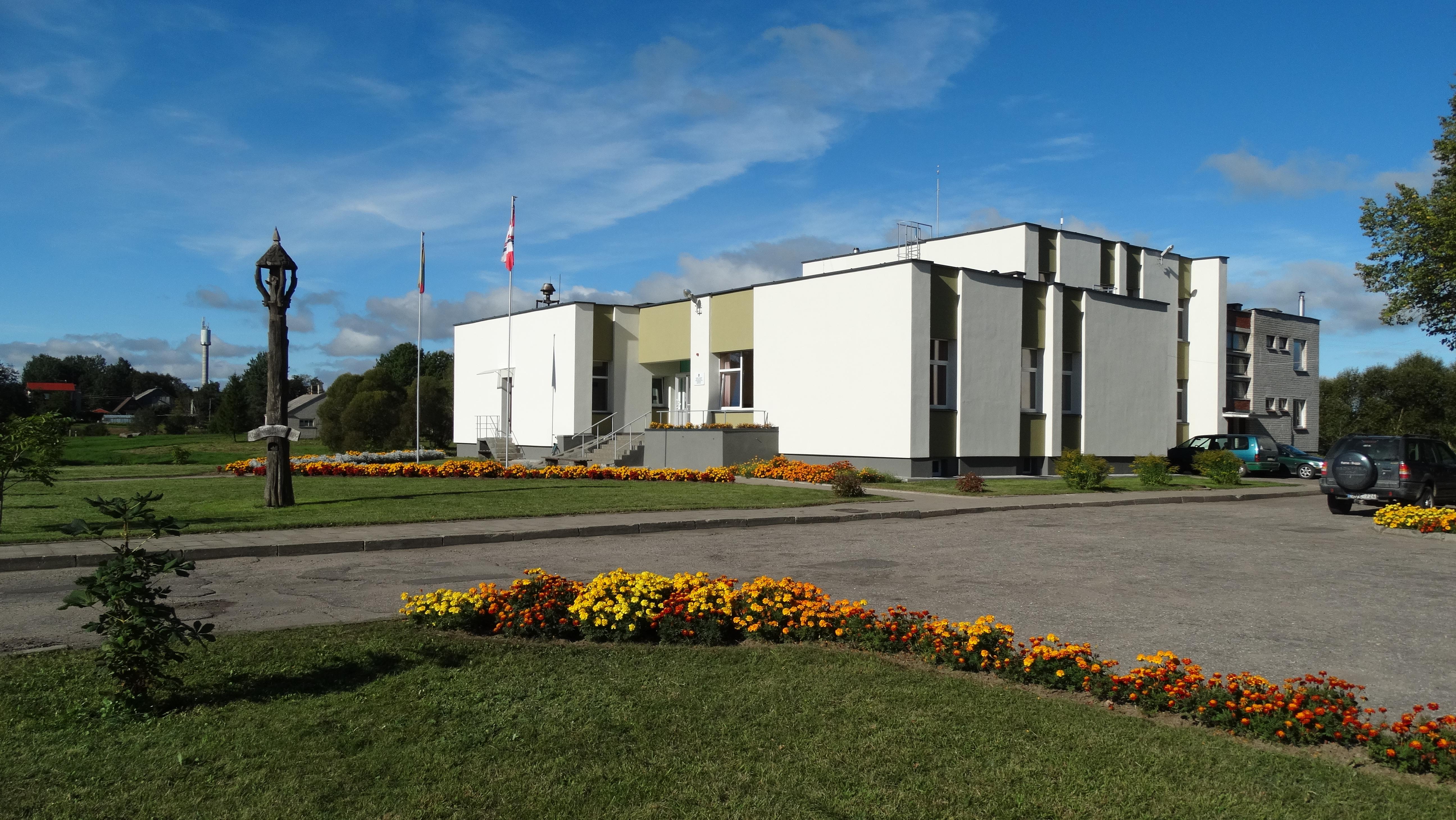 Eldership, Turmantas, Zarasai district, Lithuania